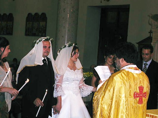 Arberesh Byzantine Catholic Wedding